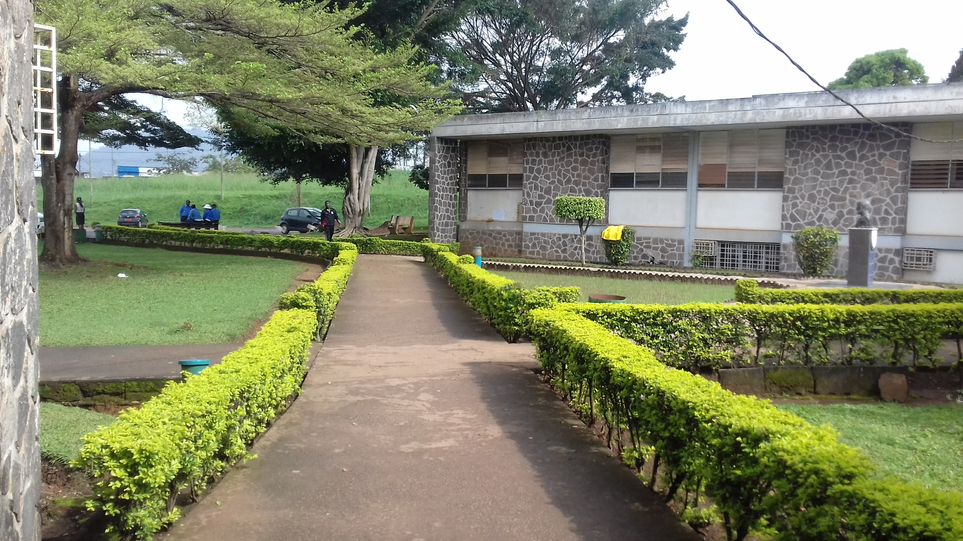 This is an image of "African people at work" from Cameroon